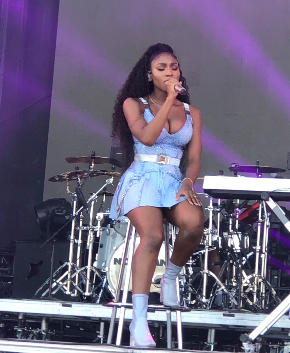 Normani performing at the Osheaga Music Festival.